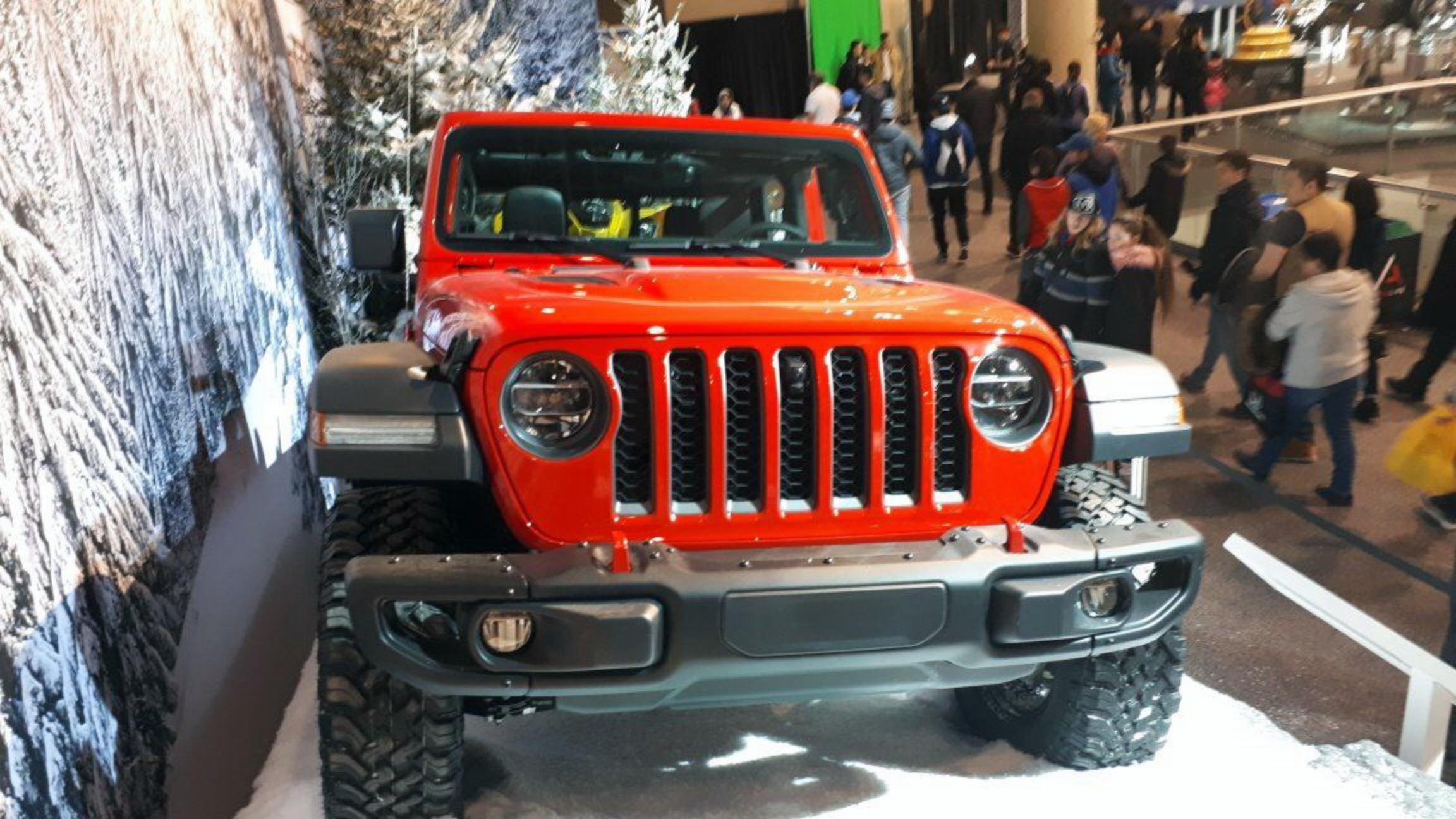 New Jeep Gladiator is very interesting but it looks like the Jeep Wrangler